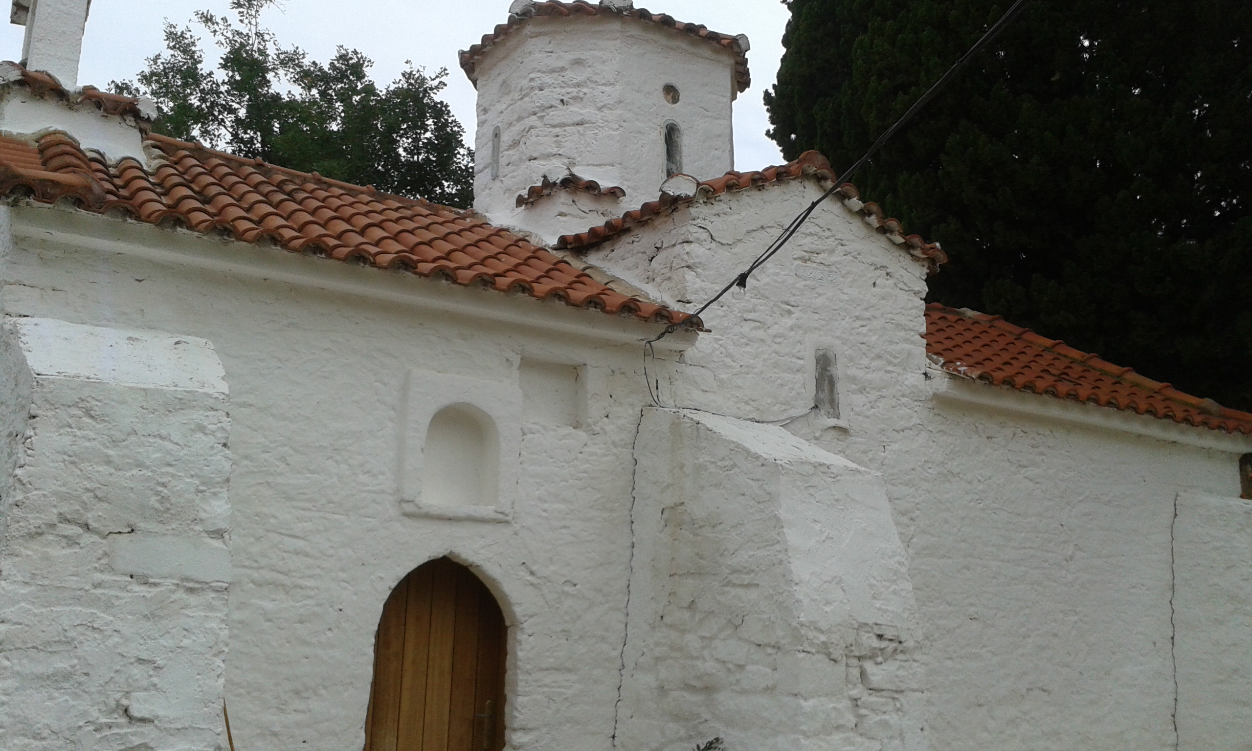 Saint John church at Saint John village, Arcadia, Greece